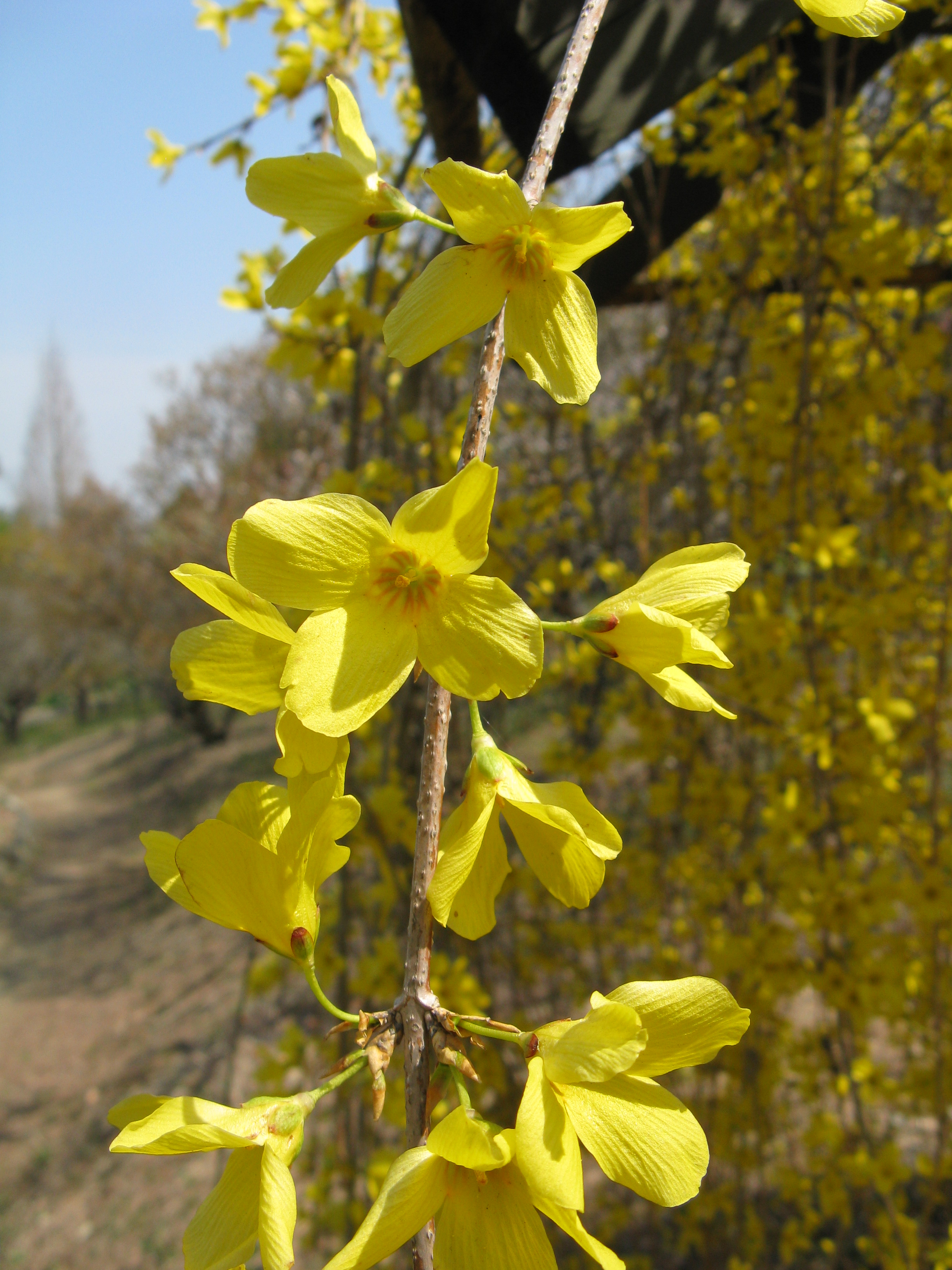 Forsythia suspensa